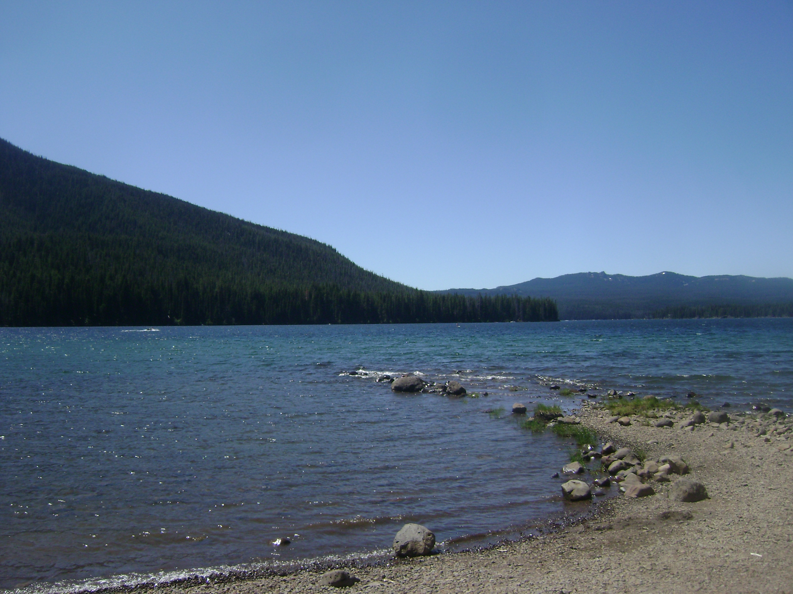 Cultus Lake in Oregon